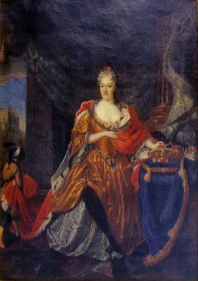 Portrait of Christiane Eberhardine of Brandenburg-Bayreuth